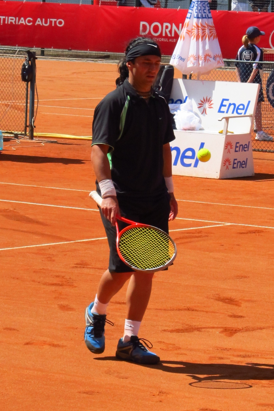 Teodor-Dacian Crăciun playing in the first qualifying round of the 2012 BRD Năstase Țiriac Trophy against Andrei Mlendea